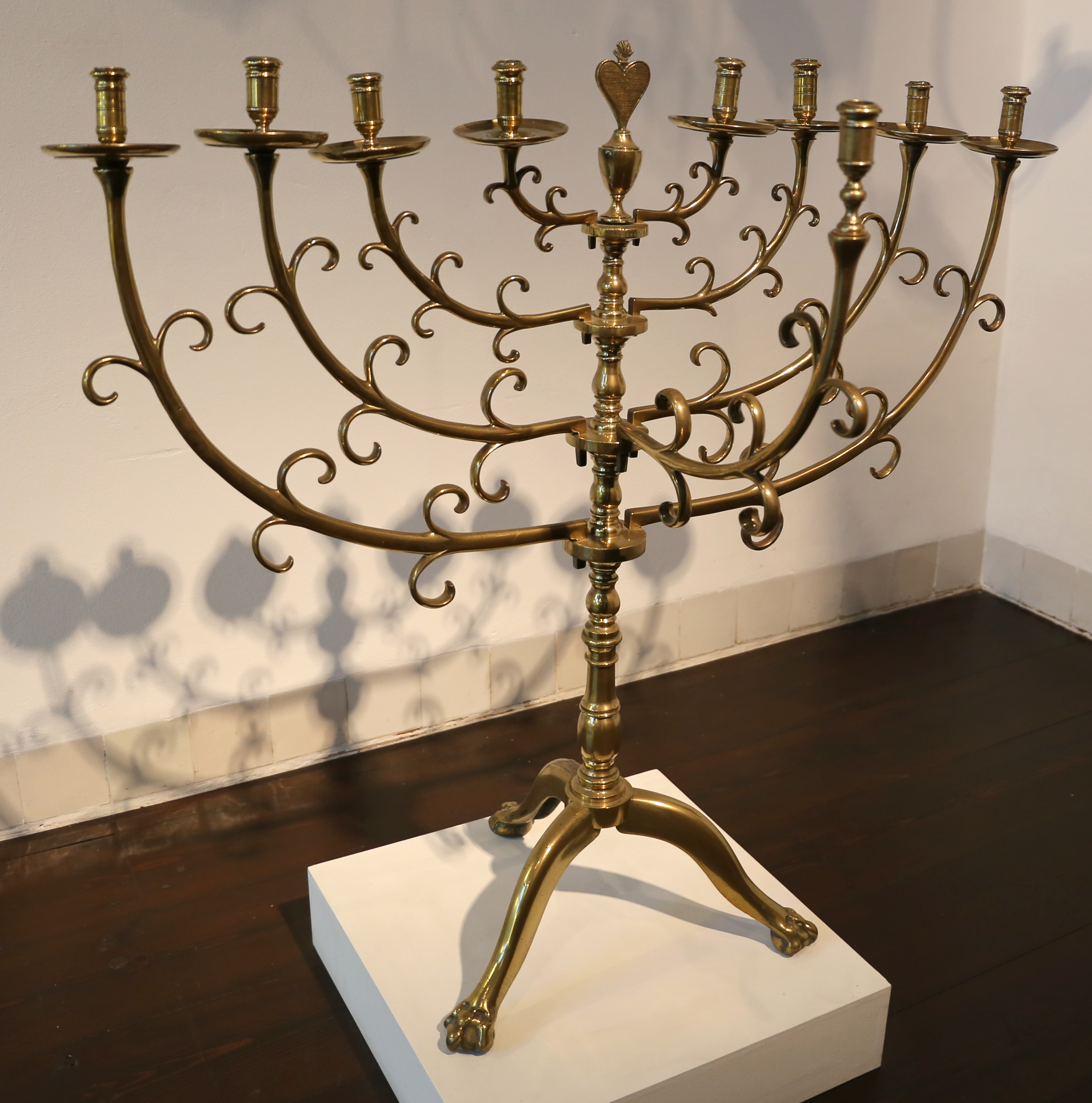 Museum Gouda